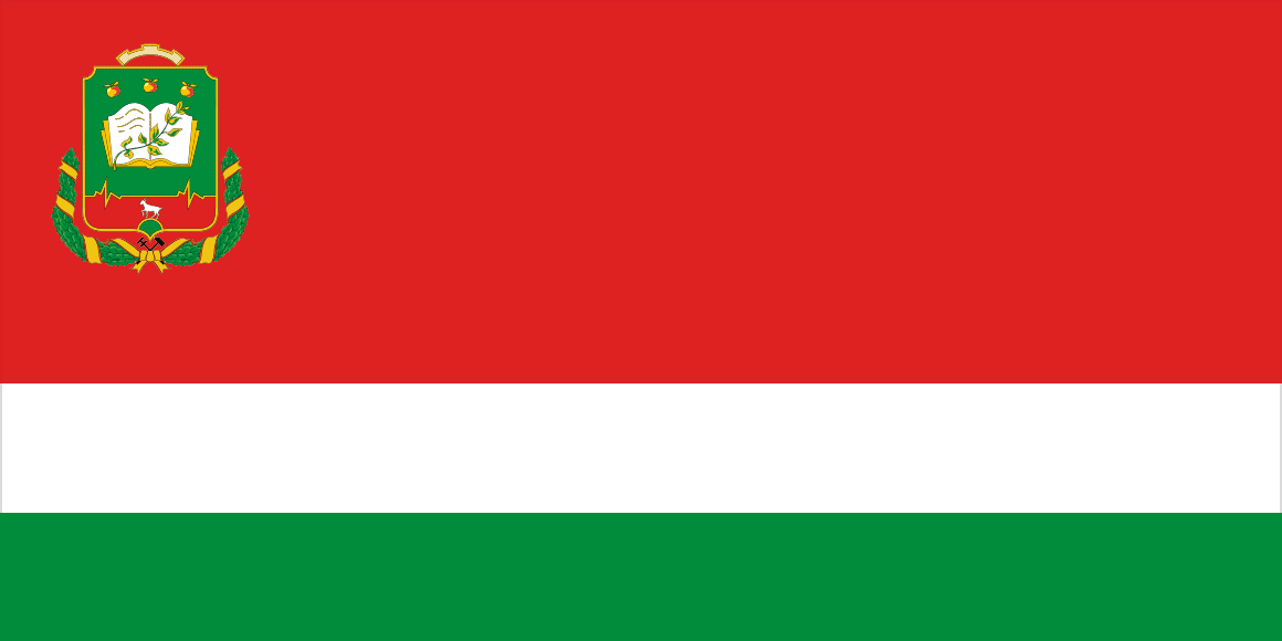 Flag of Michurinsk, Tambov Region, Russia